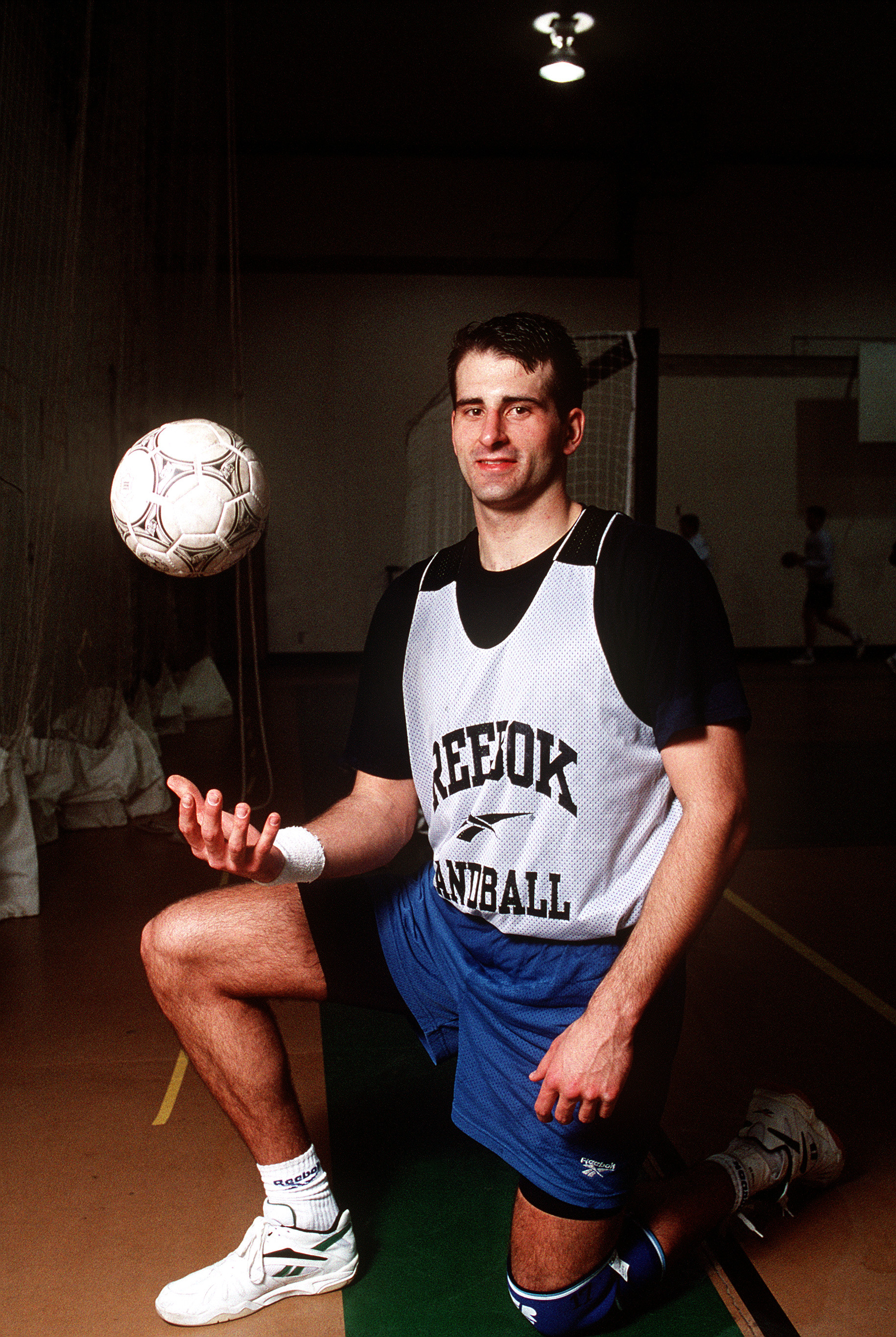 1st Lt. David W. DeGraaf poses with his team style handball. He trains with the national handball team and hopes to make the Olympic squad. Team handball is played on a basketball court with what looks like a miniature soccer ball. Photo published in Airman Magazine, June 1996.Exact Date Shot Unknown